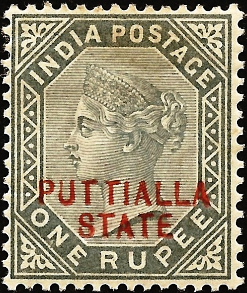 One Rupee Queen Victoria Head (slate colour) overprinted with "PUTTIALLA STATE" (1885). Postage stamp of Patiala state, an Indian convention state in the Punjab. Ser No 10 for Patiala in Stanley Gibbons Stamp Catalogue Commonwealth & British Empire Stamps (1840-1970). (2008). London. Ref pg 288-289. Own work. From the collection of Brig A.P. Singh (self). This work created by the United Kingdom Government is in the public domain. This is because it is one of the following: It is a photograph taken prior to 1 June 1957; or It was published prior to 1969; or It is an artistic work other than a photograph or engraving (e.g. a painting) which was created prior to 1969. HMSO has declared that the expiry of Crown Copyrights applies worldwide (ref: HMSO Email Reply)More information. See also Copyright and Crown copyright artistic works.